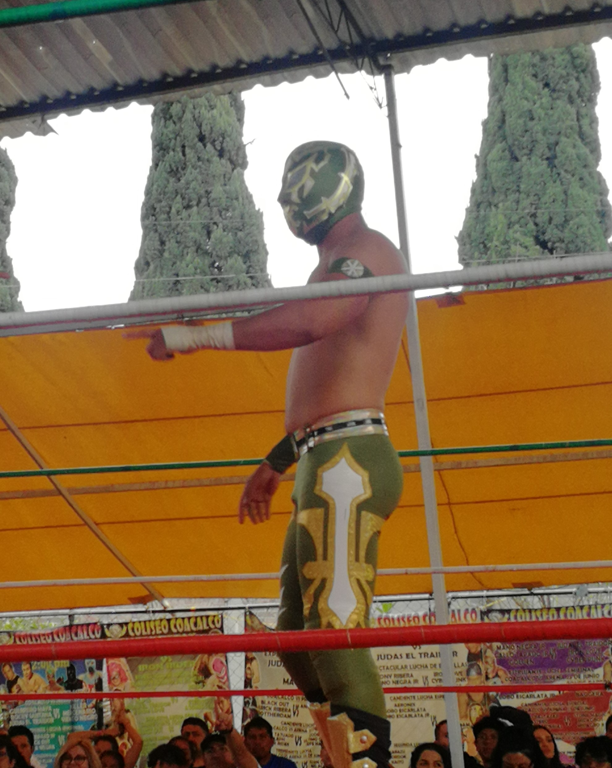 Mexican luchador Aramis, here in Arena Coliseo Coacalco in Coacalco, Mexico City